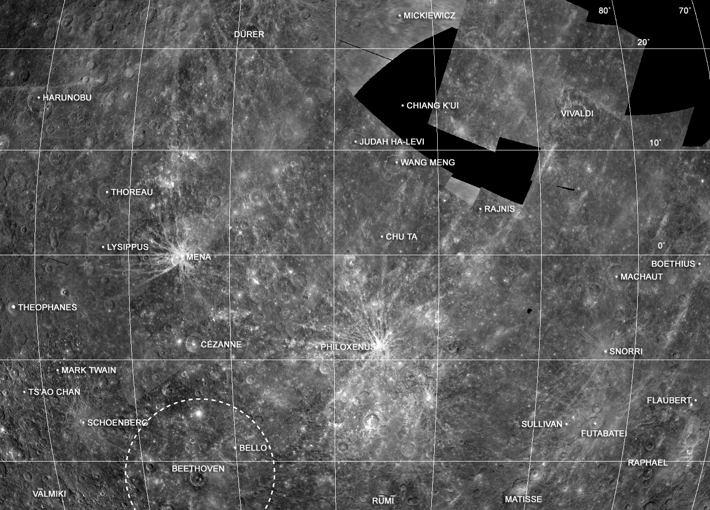 Mariner 10 photomosaic of the Beethoven quadrangle of Mercury with the the rim of the Beethoven Basin marked by a dashed white circle